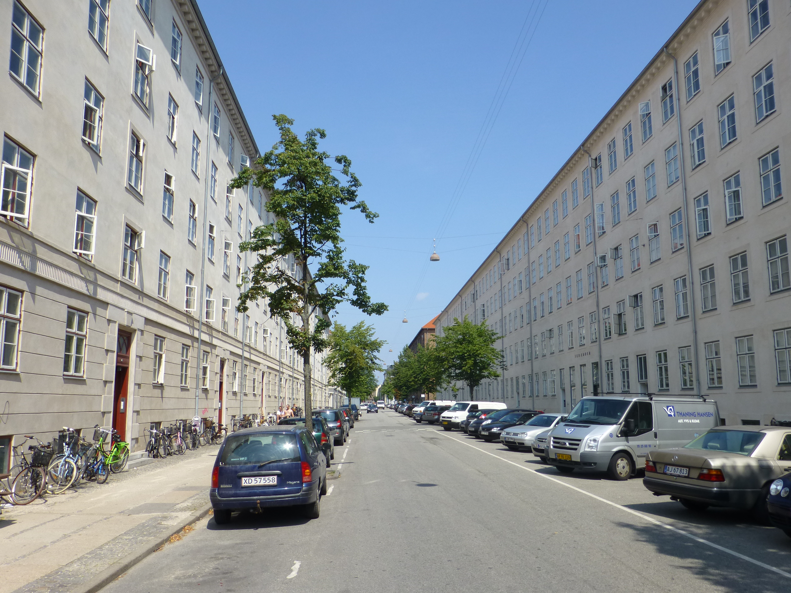 The street Stefansgade in Nørrebro in Copenhagen.